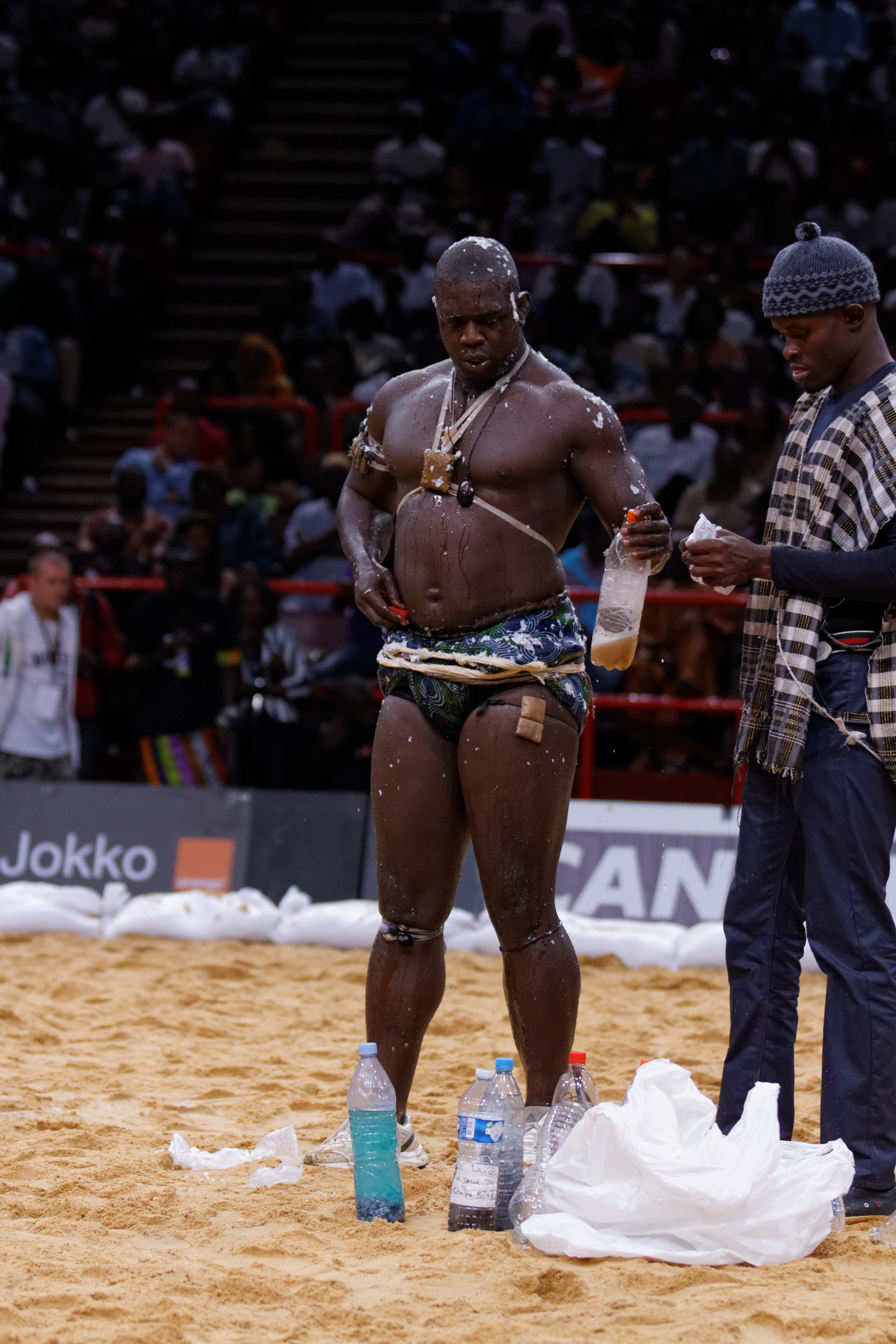 World African Wrestling world tour, Paris Bercy. Baboye vs Bombardier. Mixture of Baboye prepared by marabouts.